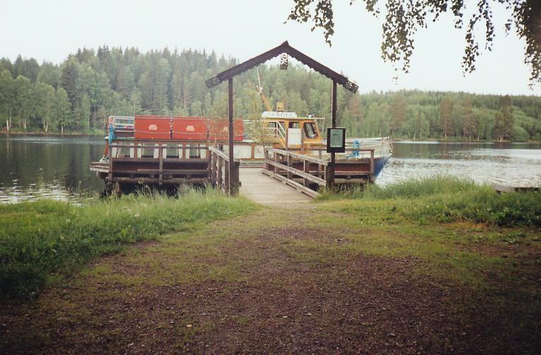 The landing-stage at the New Valamo monastery (Finland)